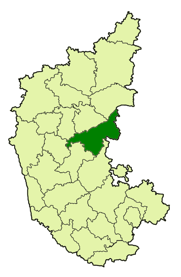 Map of Bellary District original altered from blank map of Wikimedia Commons. Map of Bellary District original altered from blank map of Wikimedia Commons.